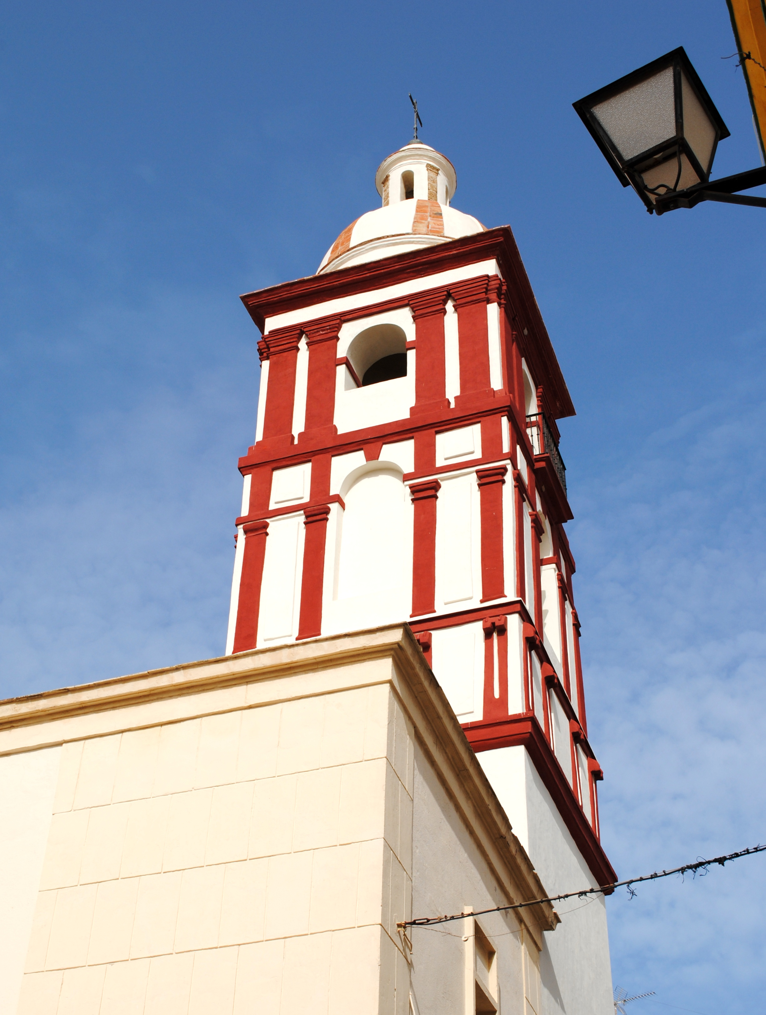 Church of Our Lady of Mercy, Cádiz. Belonged to the former Mercy Convent, founded in 1629 by the Duke of Medina Sidonia. After successive destructions only retain the original set, the tower and cover art, works of Mannerist forms made in the first half of the seventeenth century.